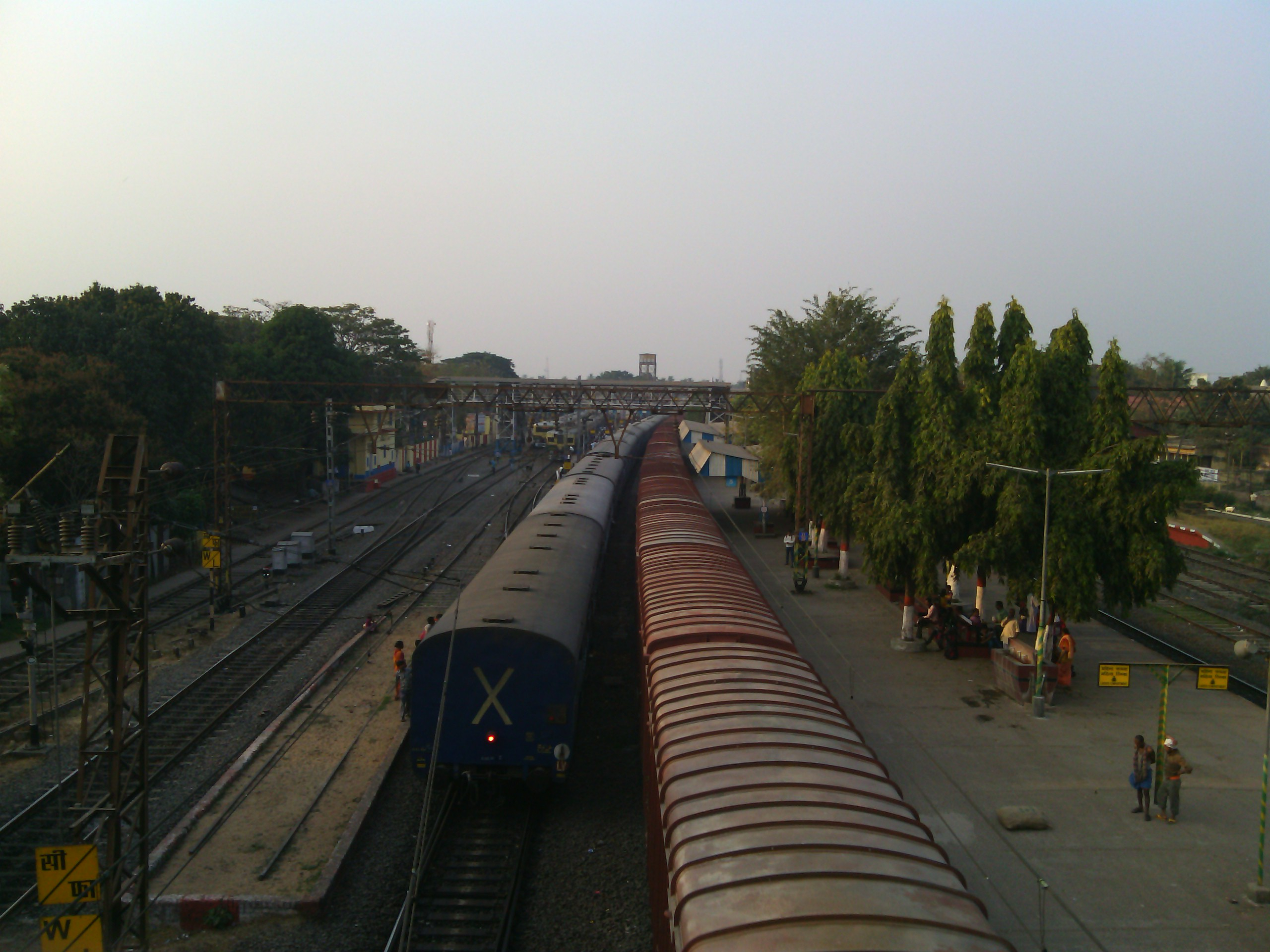 View of Sheoraphuli railway station from the southern foot bridge.